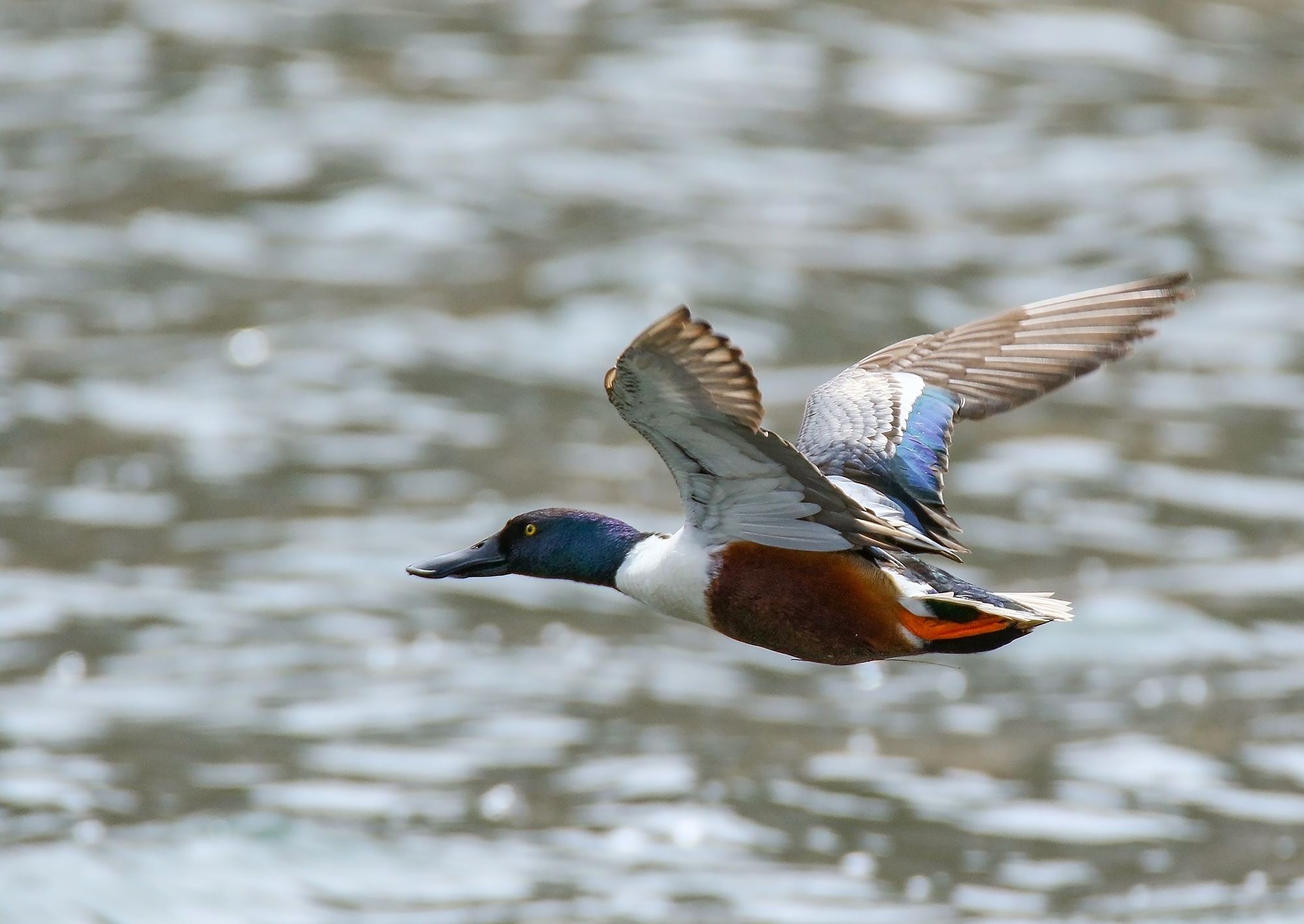 Northern Shoveler (Anas clypeata) captured at Borit, Gojal, Gilgit-Baltistan, Pakistan with Canon EOS 7D Mark II